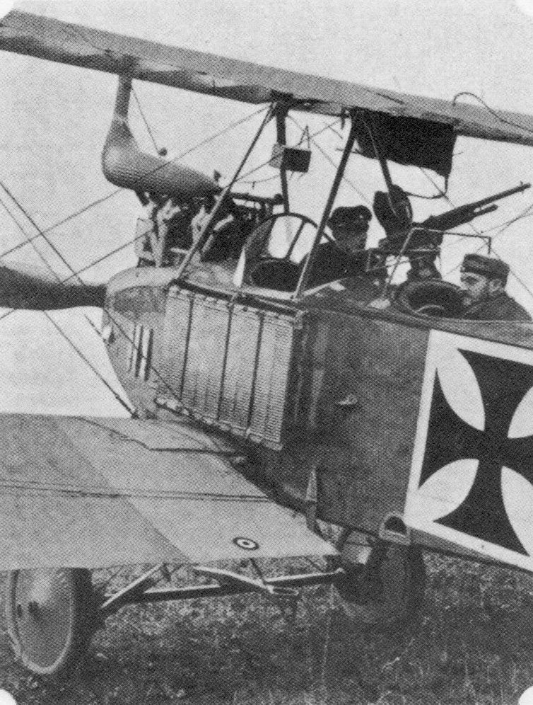 Albartos B.II